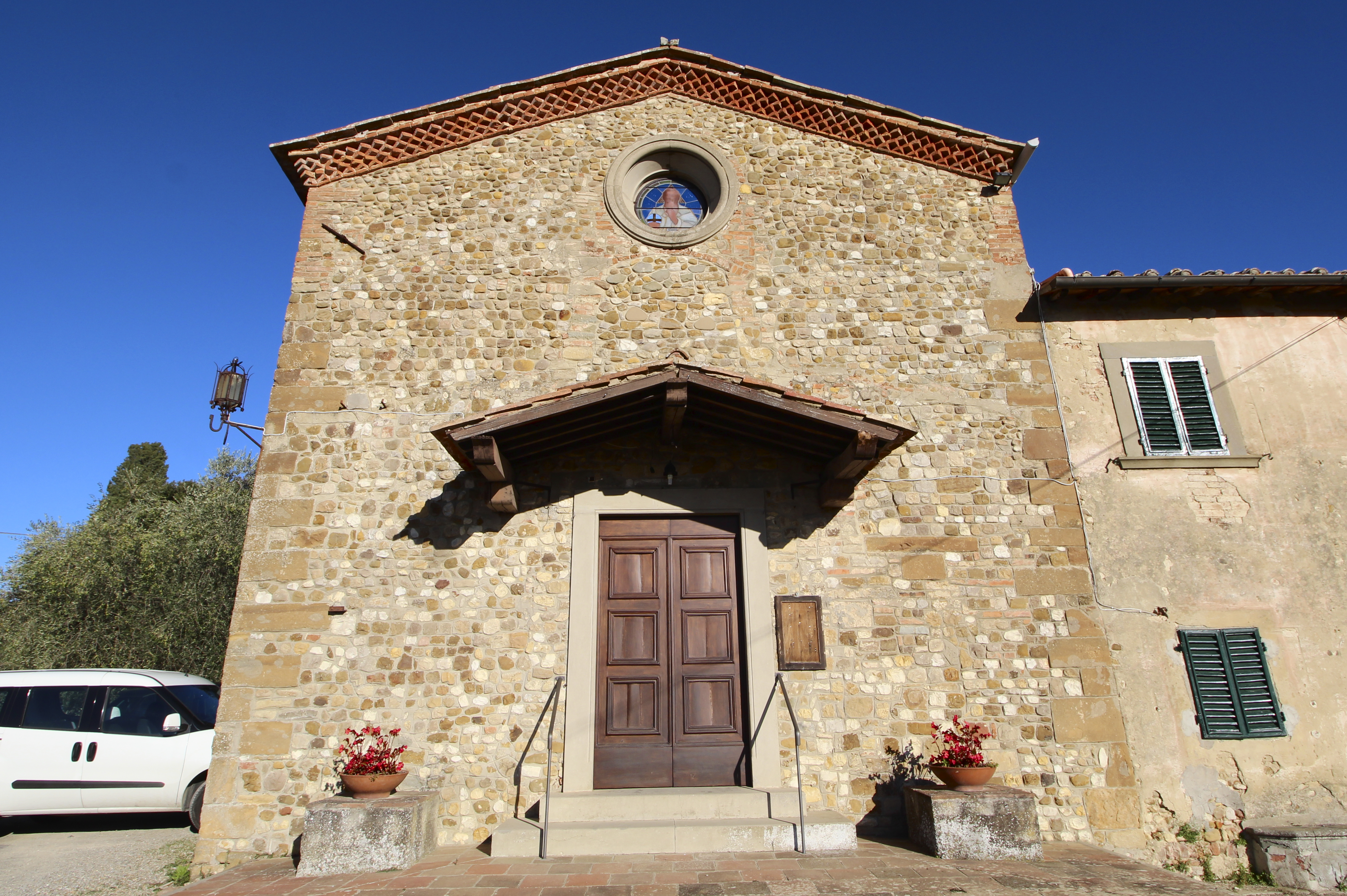 Church San Bartolomeo, Palazzuolo, Tavarnelle Val di Pesa, Metropolitan City of Florence, Tuscany, Italy